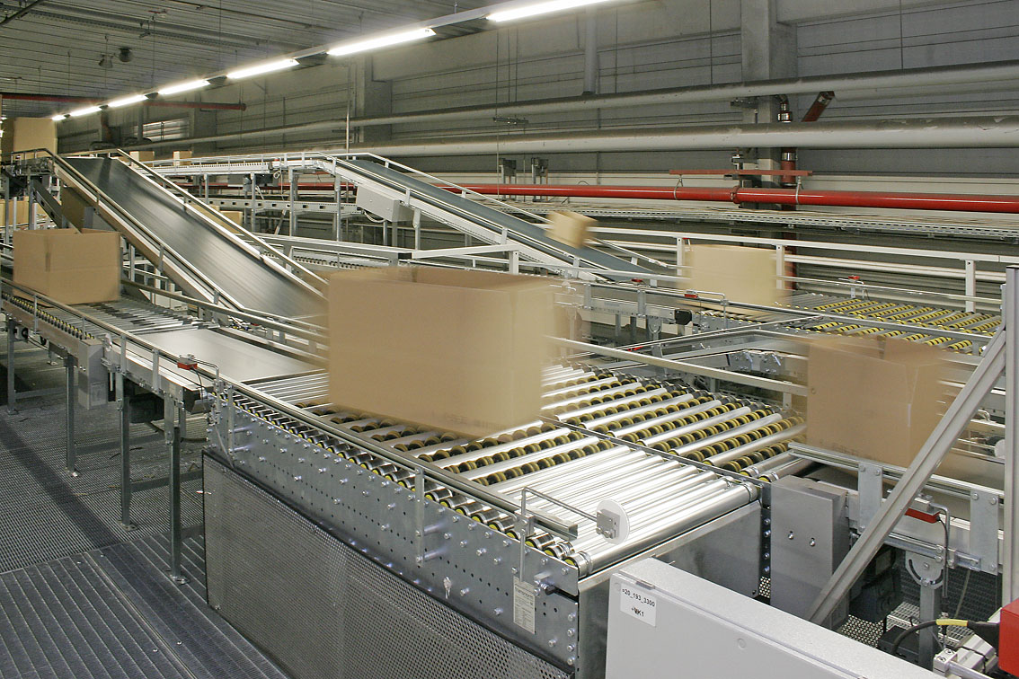 Coneyor track in warehouse komplex.